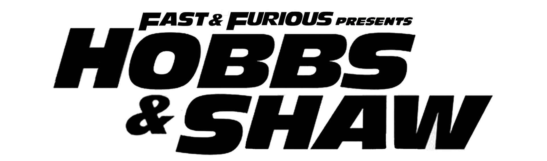 Logo de la pelicula Hobbs y Shaw